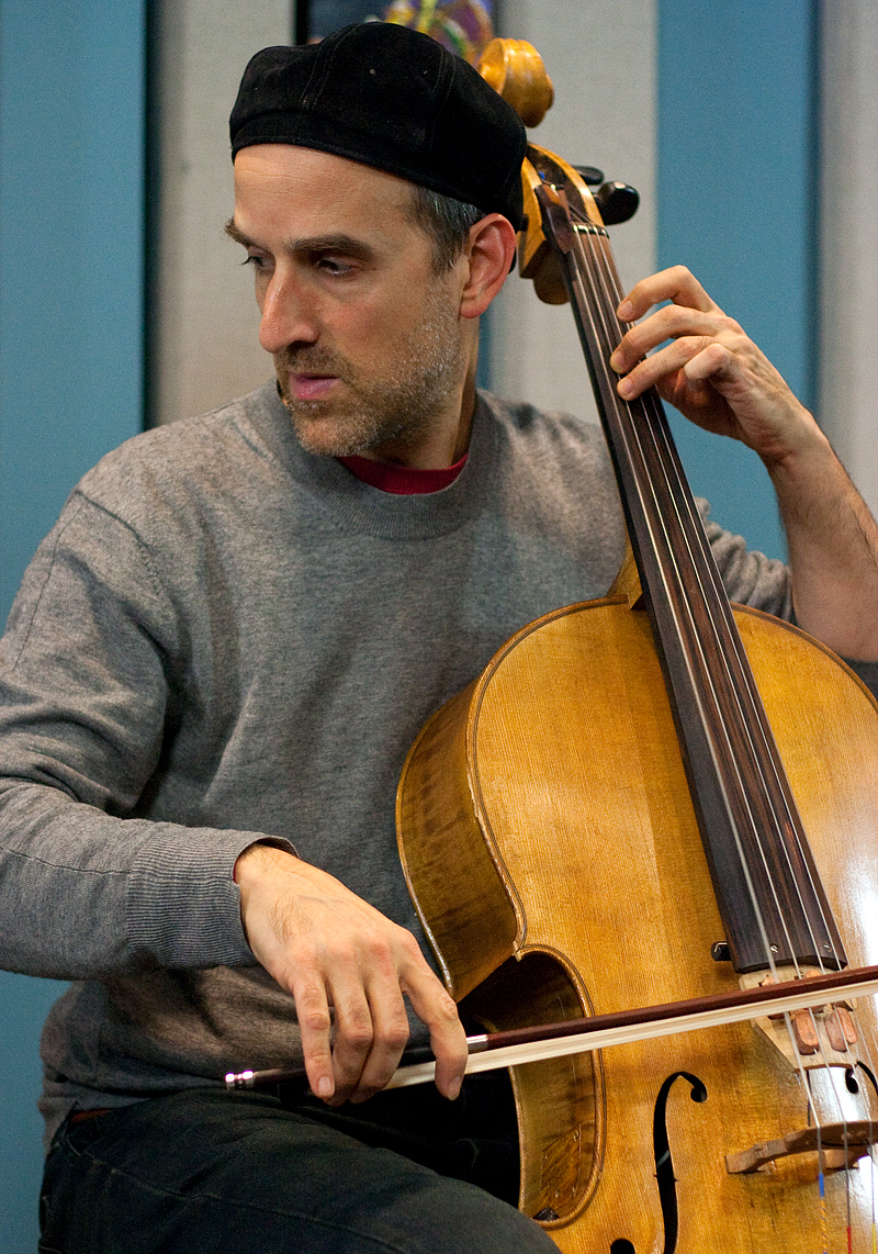 Cellist Rufus Cappadocia gave an incredible performance in the KPLU studios on November 9, 2010. Photo by Justin Steyer